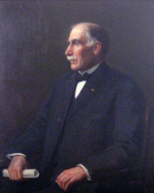 Portrait of Vermont Governor Josiah Grout. Vermont State House collection. Photographed in situ August 2007 at the Vermont State House.